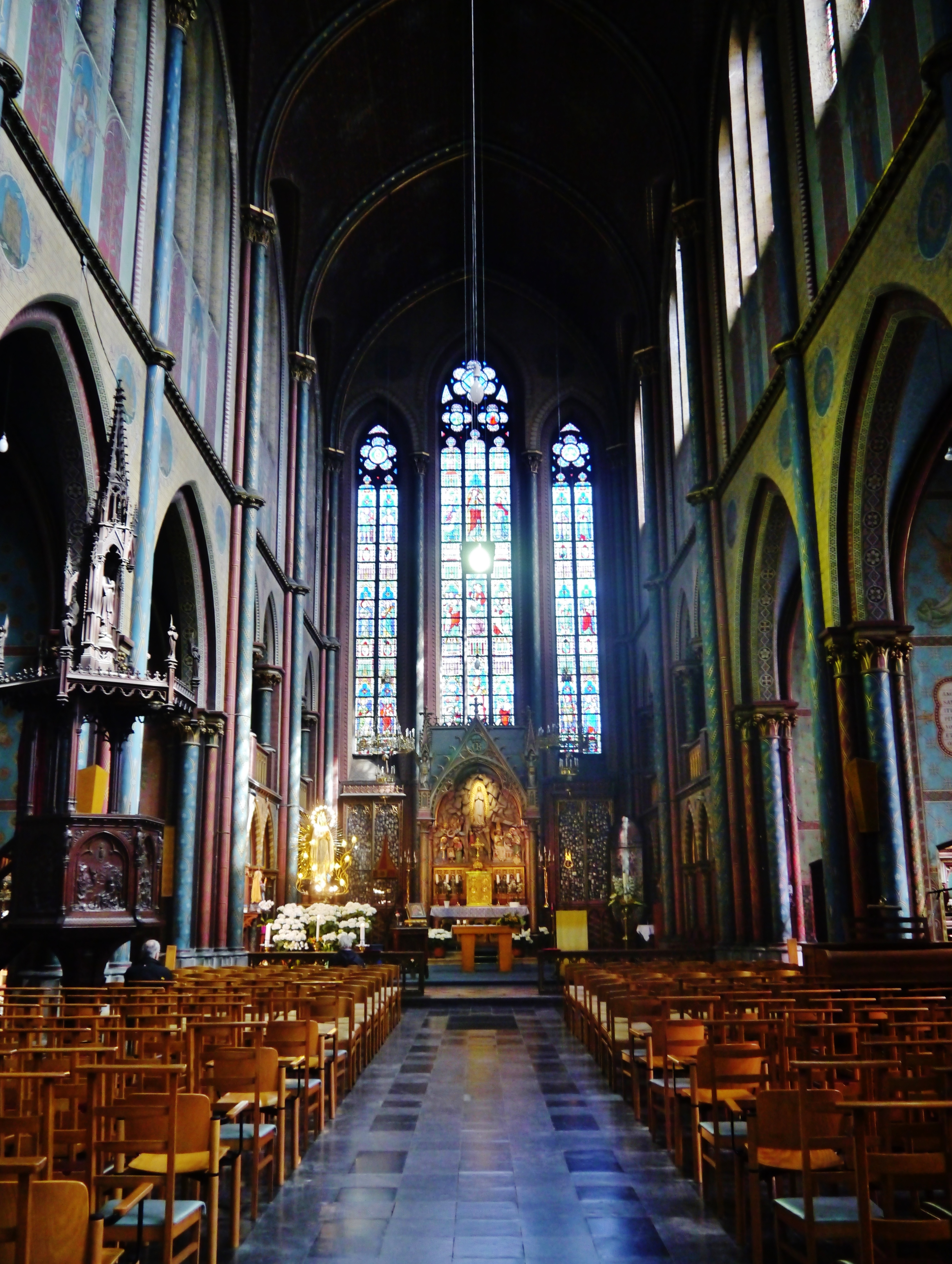 Nave of the Basilica of Our Lady of Lourdes, Oostakker (City Department of Ghent), Province of East Flanders, Flanders, Belgium